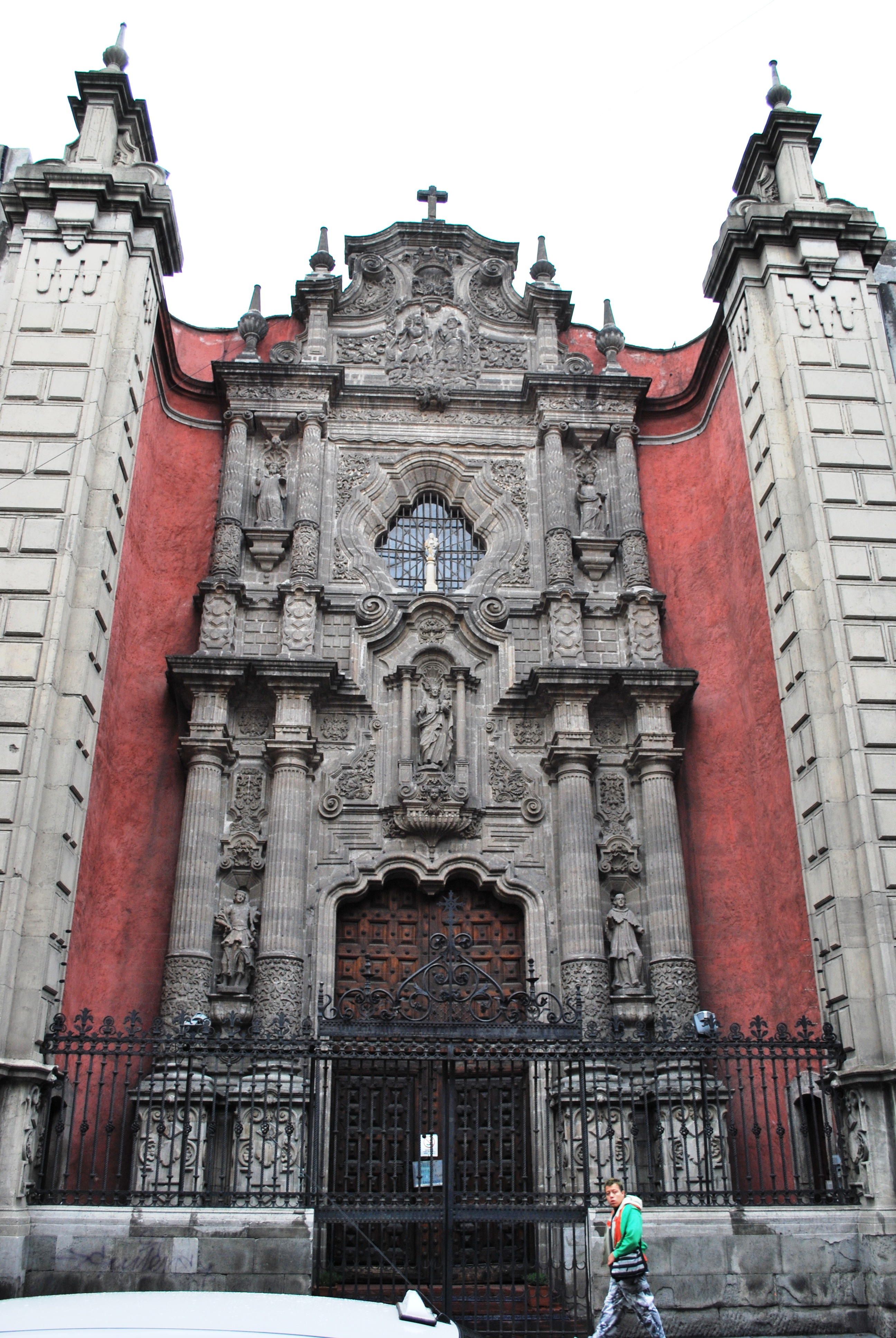 Facade of the La Enseñanza Church on Donceles Street in the historic center of Mexico City